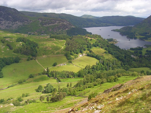 Grisedale The foot of the valley that separates the Helvellyn and Fairfield groups of fells. This view from the fellside on Birks shows Ullswater.